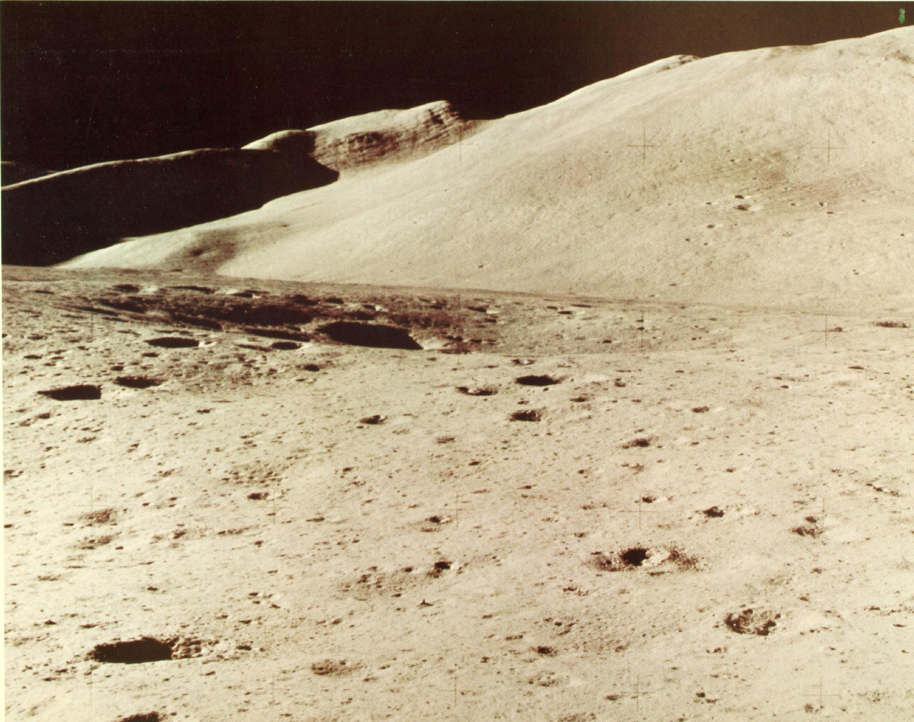 Apollo 15 Moon Landing.